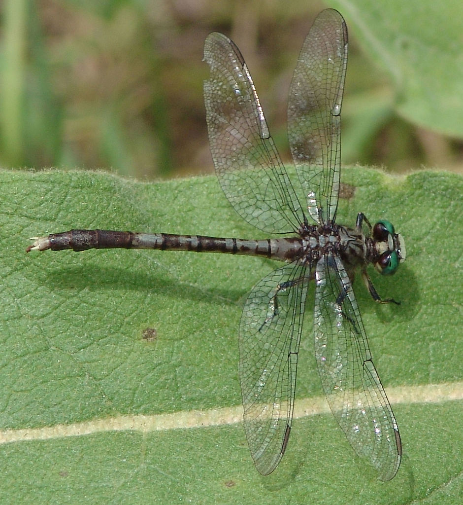 Bayou Clubtail (Arigomphus maxwelli), Saint Francis Sunken Lands Craighead County Arkansas